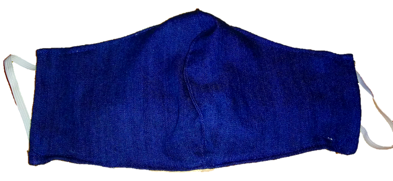 A homemade denim facemask sewn at a home in Clovis, Californiaɧ